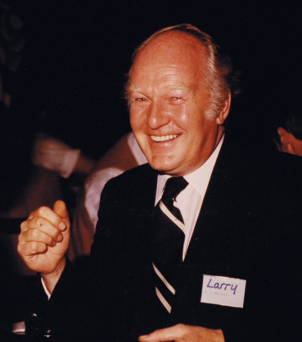 W Lawrence Heisey New York City 1985